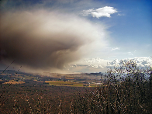 Distant snow squall, Caernarvon Township, Lancaster County.